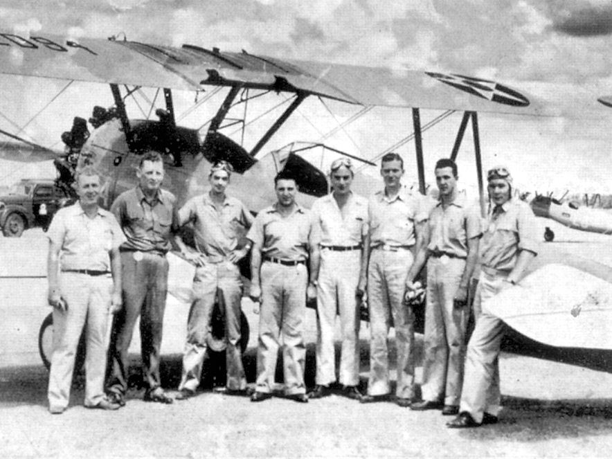 Albany Army Airfield - Door Aero-Tech Flight Instructors